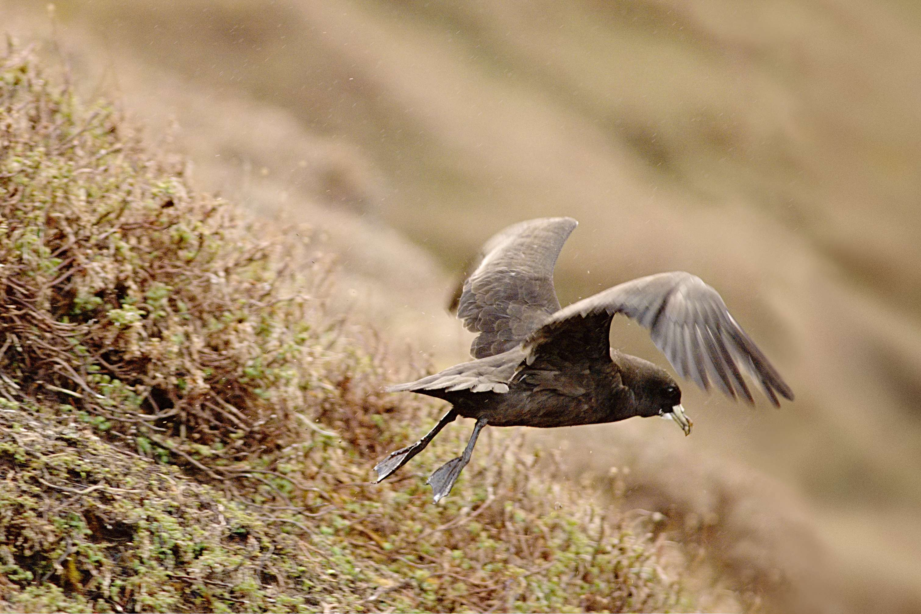 White-chinned Petrel Taking off